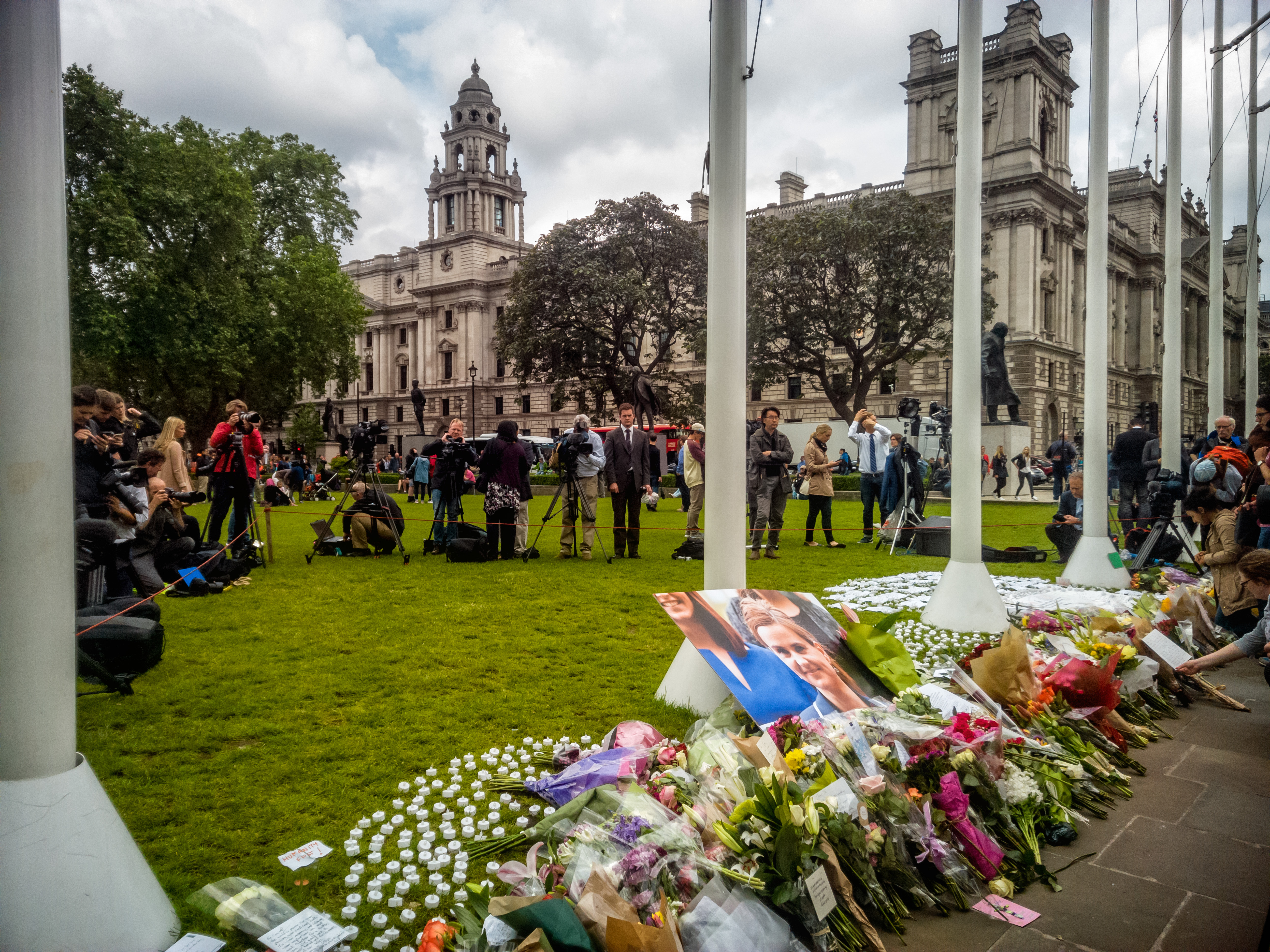 Photo taken at the memorial site for Jo Cox MP at Parliament Square in London.